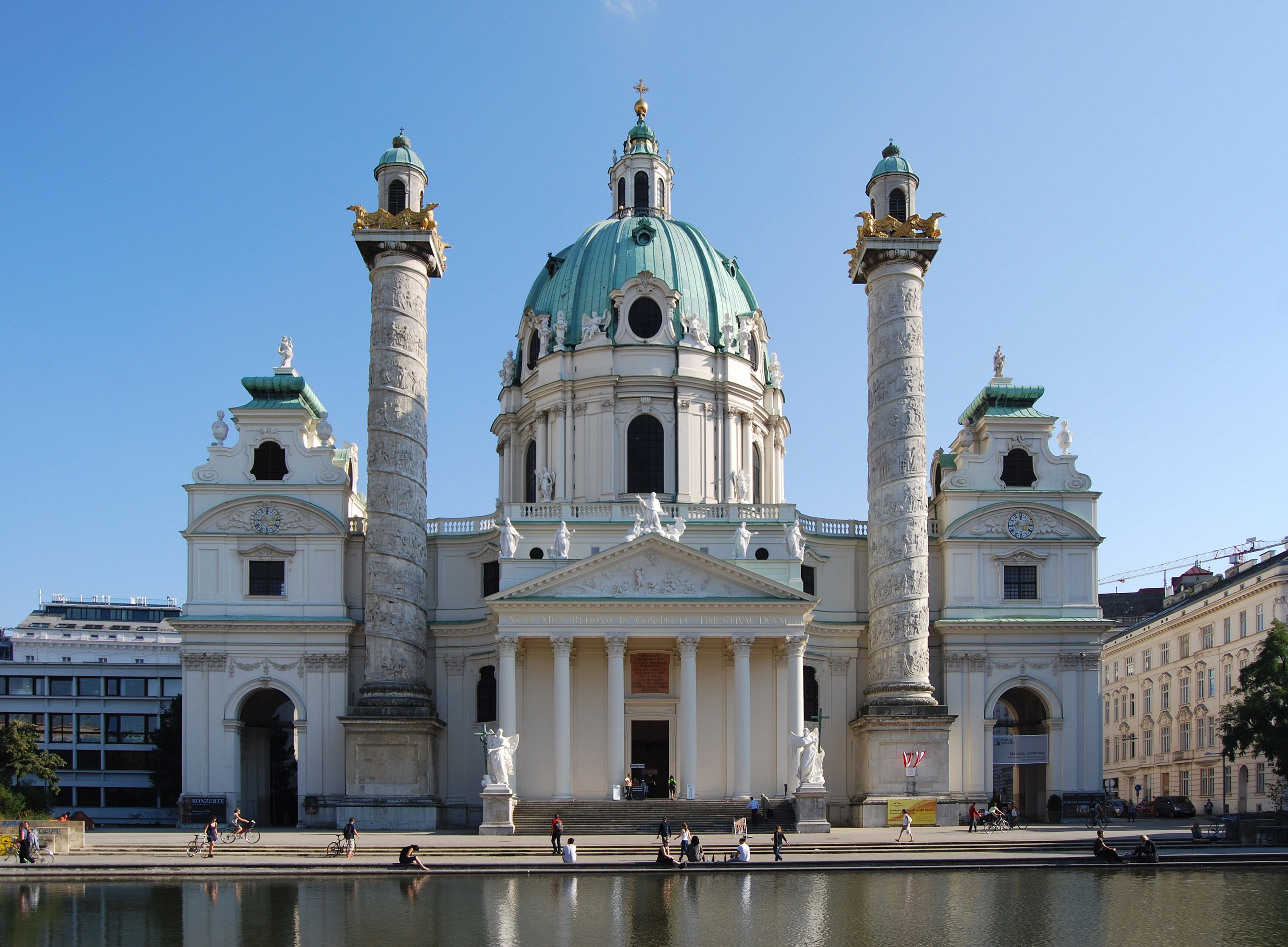 The baroque Karlskirche in Vienna, Austria.